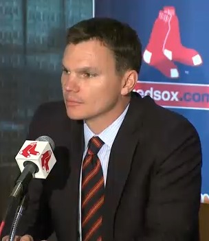 Ben Cherington's Introductory Press Conference as Boston Red Sox GM